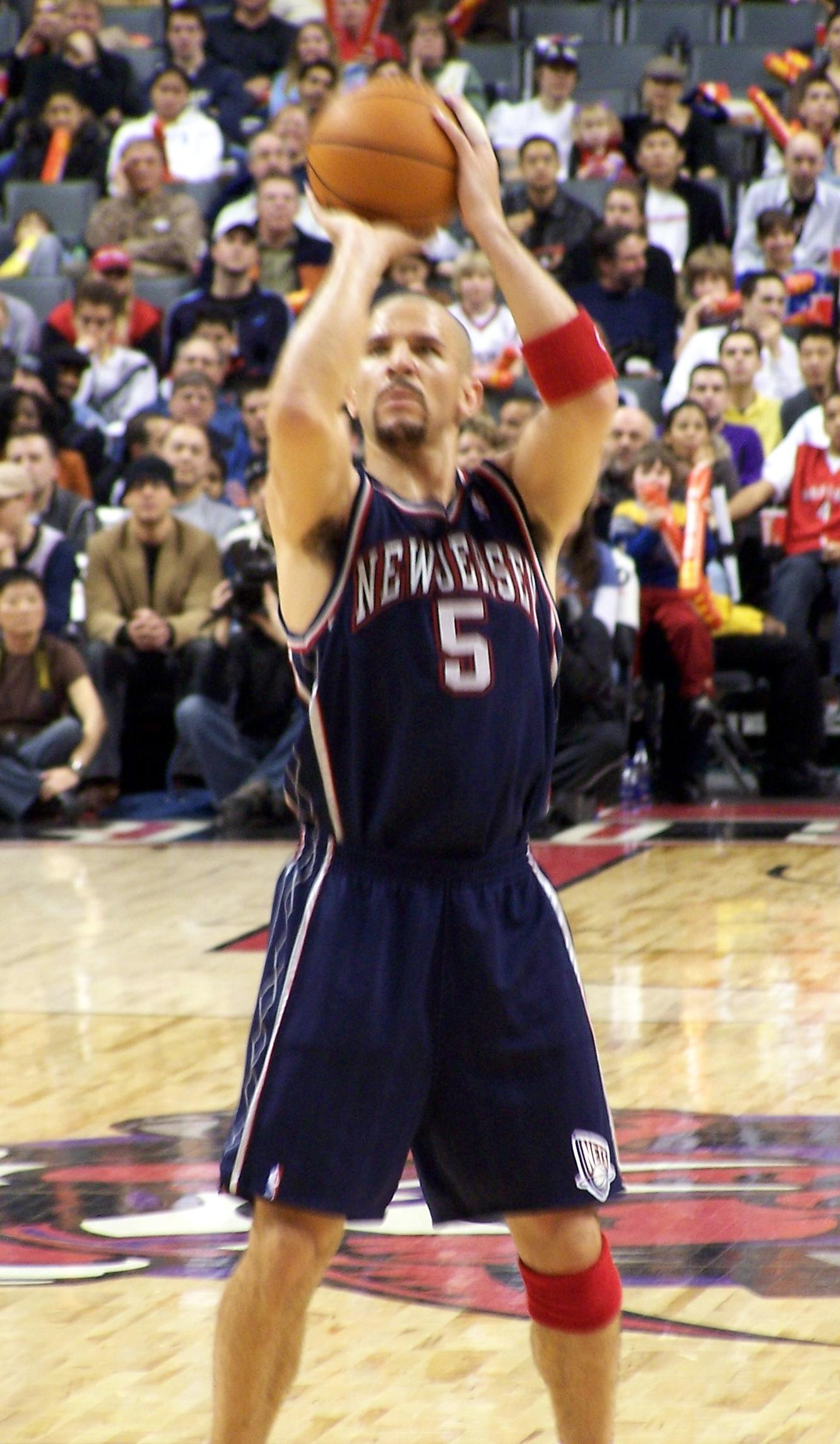 Jason Kidd at the free throw line.